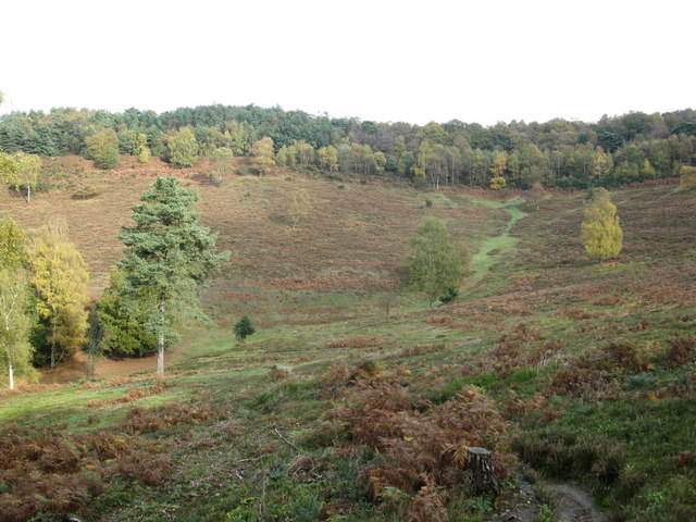 Devil's Punch Bowl, Hindhead Common A well known valley maintained as open heath.